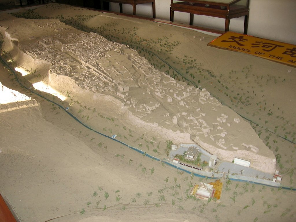 Turfan (Turpan/Tulufan) is an oasis city in the Xinjiang Uygur Autonomous Region of the People's Republic of China. Jiaohe ruins. Scale model.